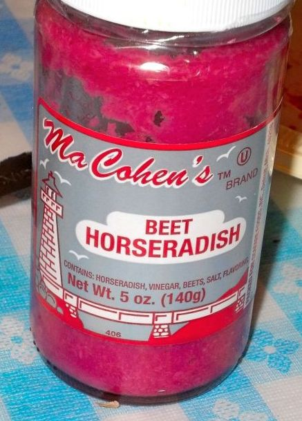 Beet Horseradish